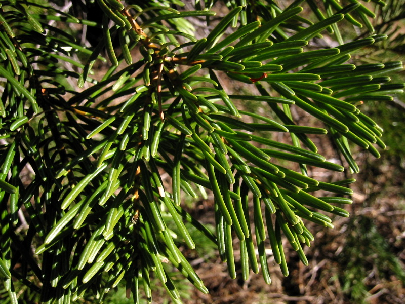 Abies concolor Description: Low's White Fir, Abies concolor subsp. lowiana, foliage. Viewpoint location: 50 m southwest of lookout road junction about 0.8 km north of Soda Mountain, Cascade-Siskiyou National Monument Lat/Long: 42.0724°N, 122.4781°W (WGS84/NAD83) USGS Soda Mountain Quad [1] Viewpoint elevation: 5600' View direction: n/a Date and time: 2005.10.22 16:21:4011 PDT Camera: Canon PowerShot S110 Photographer: Walter Siegmund ©2005 Walter Siegmund